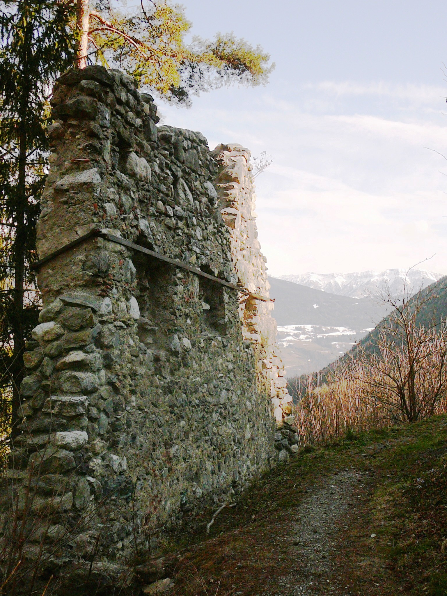 Ruins of Salern Castle in South Tyrol.